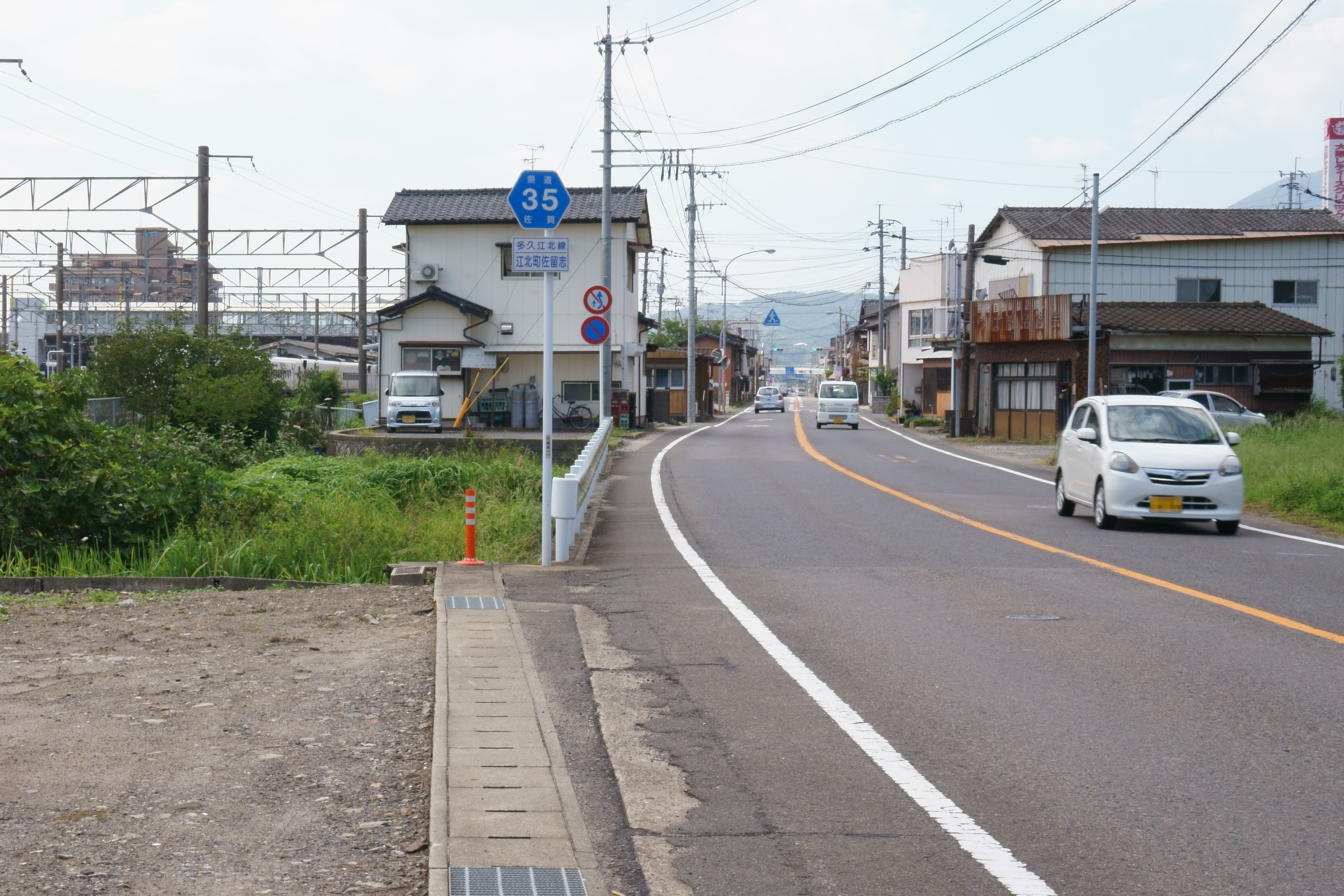 Saga Prefectural Road No.35 in east of Hizen-Yamaguchi station in Sarushi, Kohoku town, Saga prefecture.